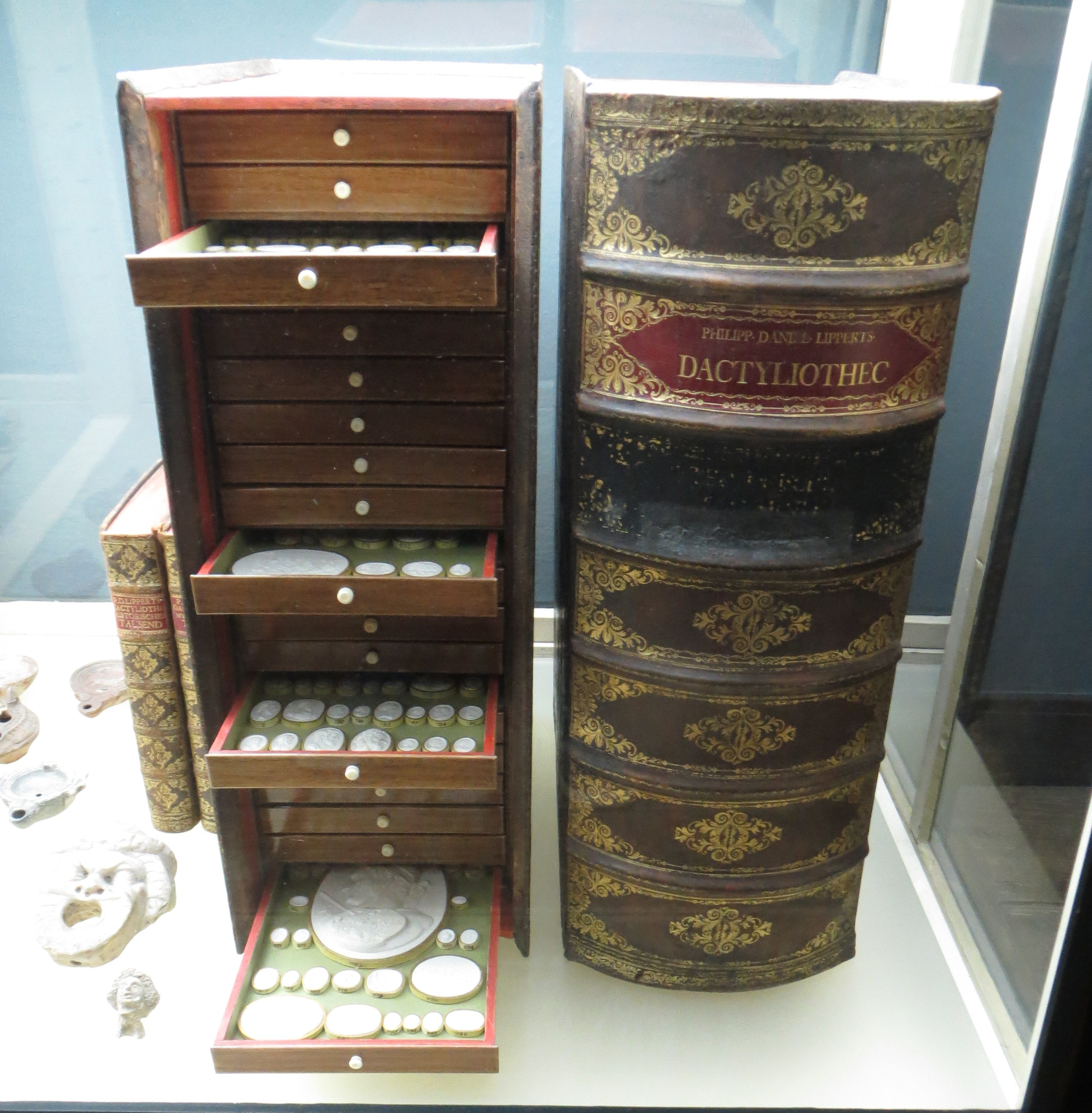 Daktyliothek by Philipp Daniel Lippert (1702-1785) in the collection of Sankt-Annen-Museum, Lübeck